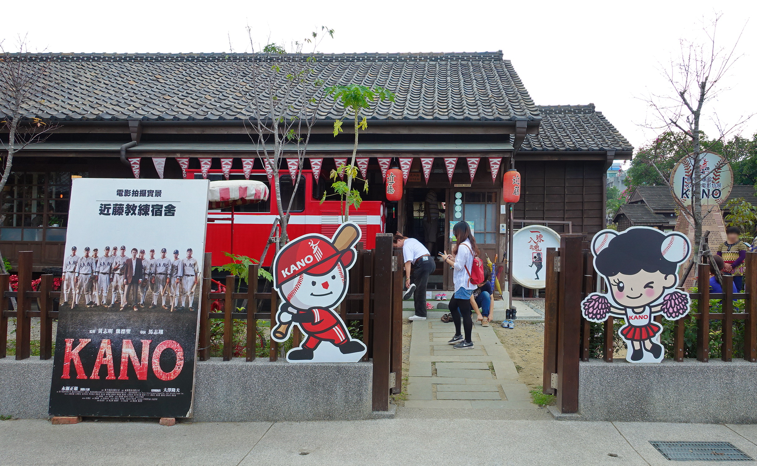 A filming location of the Taiwanese film KANO, Cypress Forest Life Village, Chiayi City, Taiwan.